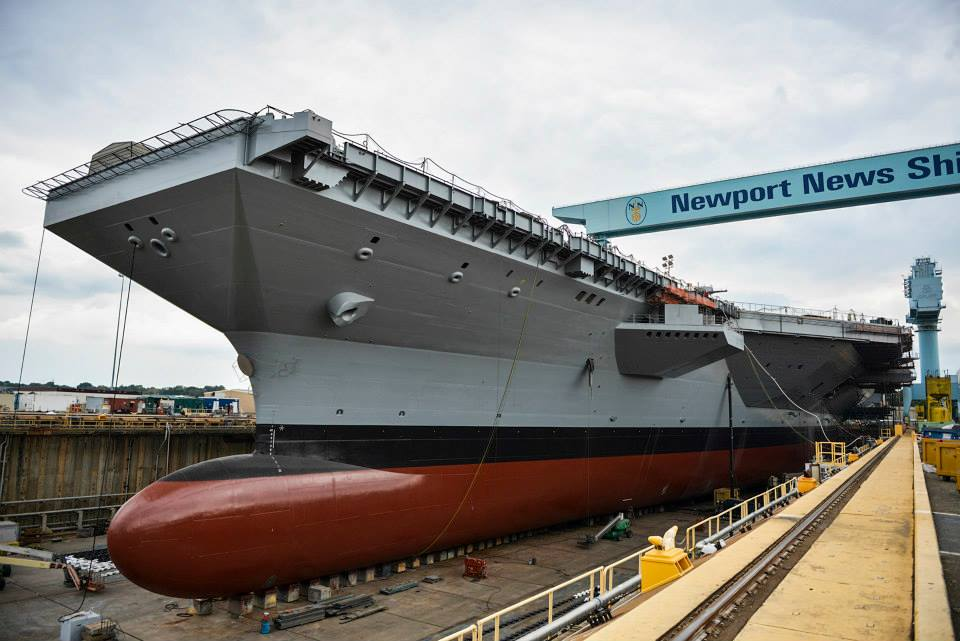 NEWPORT NEWS, Va. (Sept. 16, 2013) -- Workers at the Newport News Shipyard in Newport News, Va. construct the Pre-Commissioning Unit Gerald R. Ford (CVN 78). (U.S. Navy photo by Mass Communication Specialist 1st Class Joshua Wahl/RELEASED)